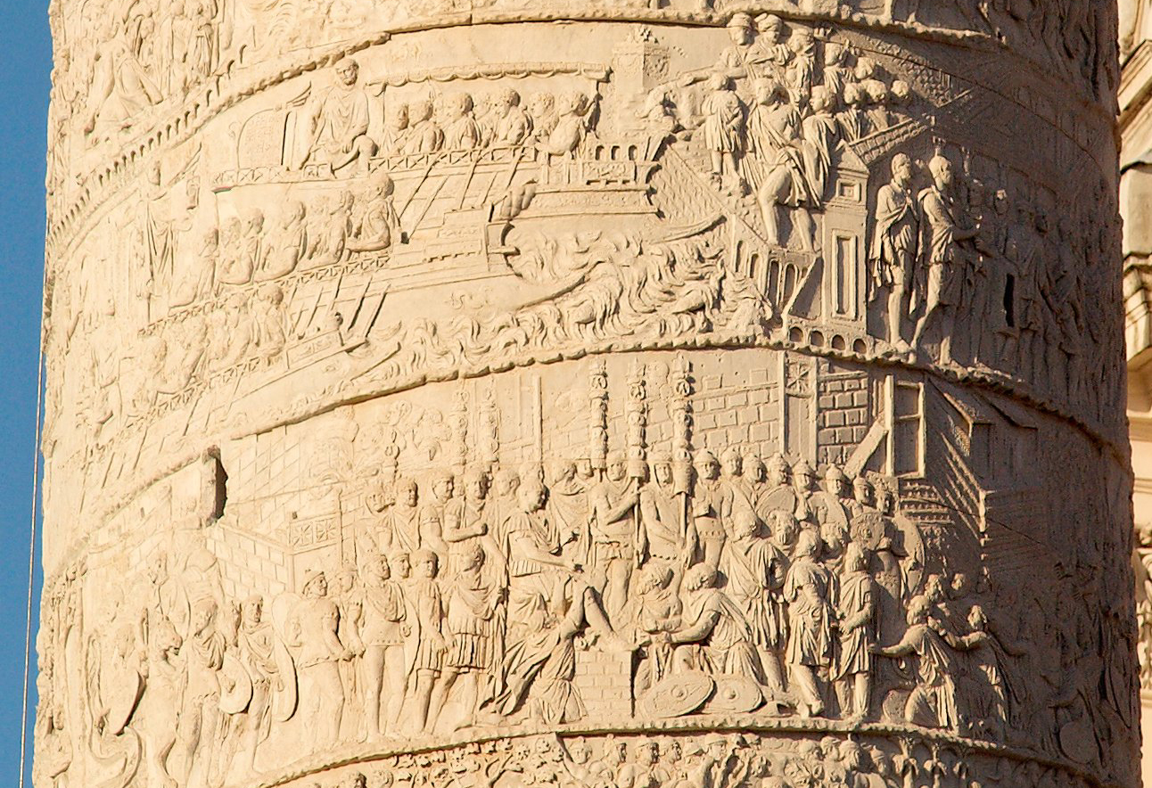 Detailed view of Trajan's column. Panorama from different images, exif taken from the middle one. Cut into pieces by user:sailko